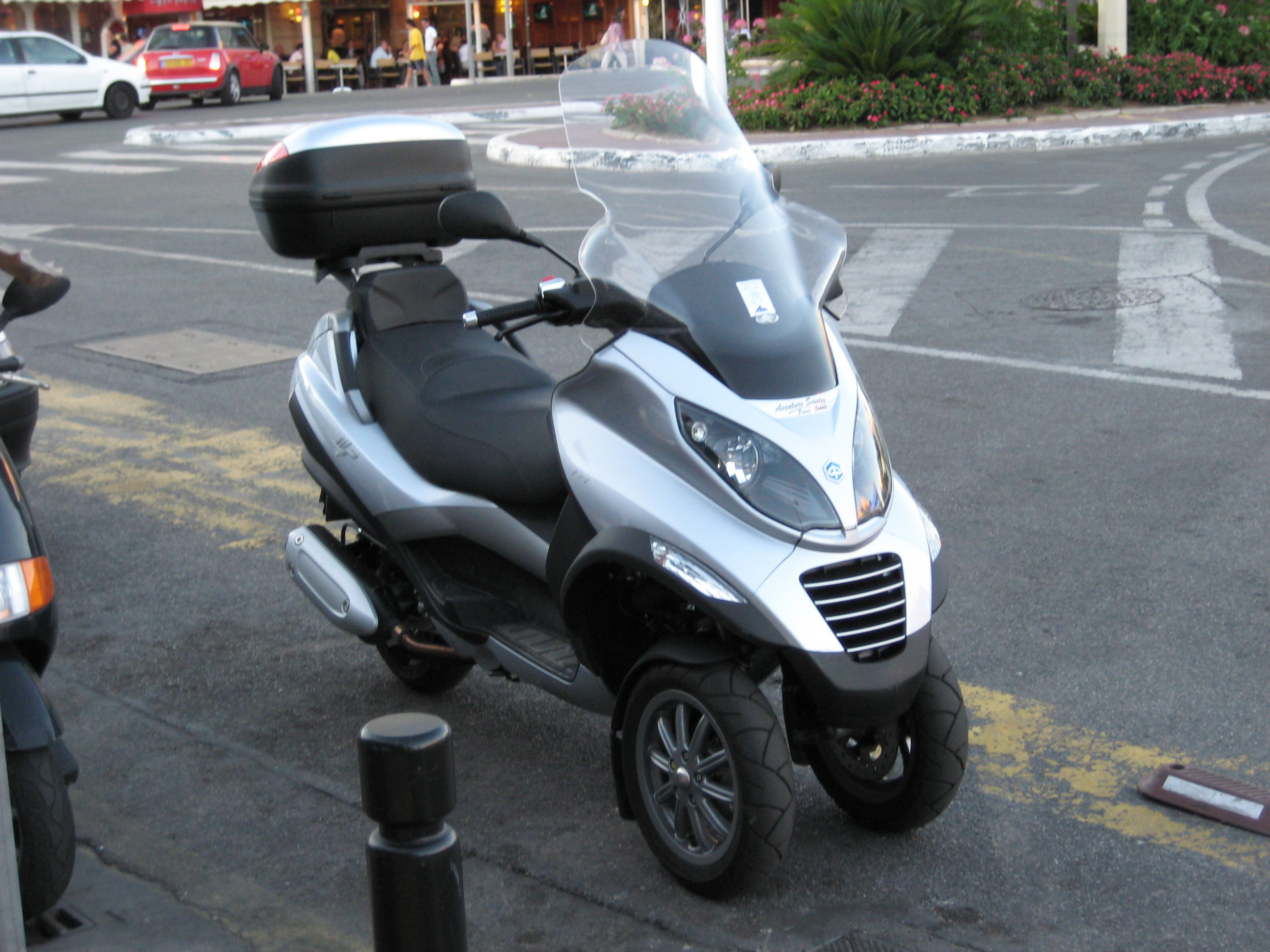 Found this strange three wheeled moped in the harbor.